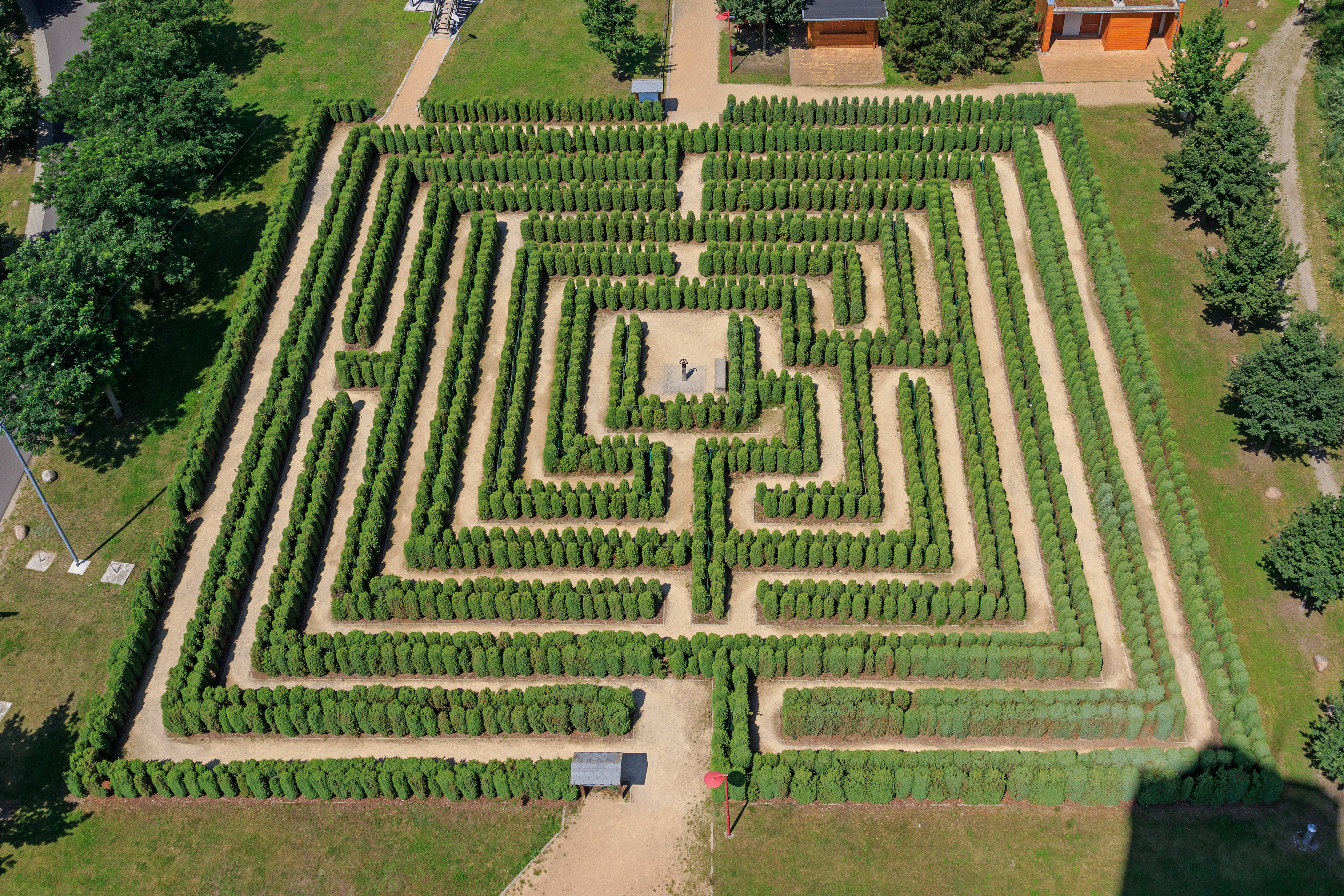 Teichland amusement park near Cottbus (Germany)